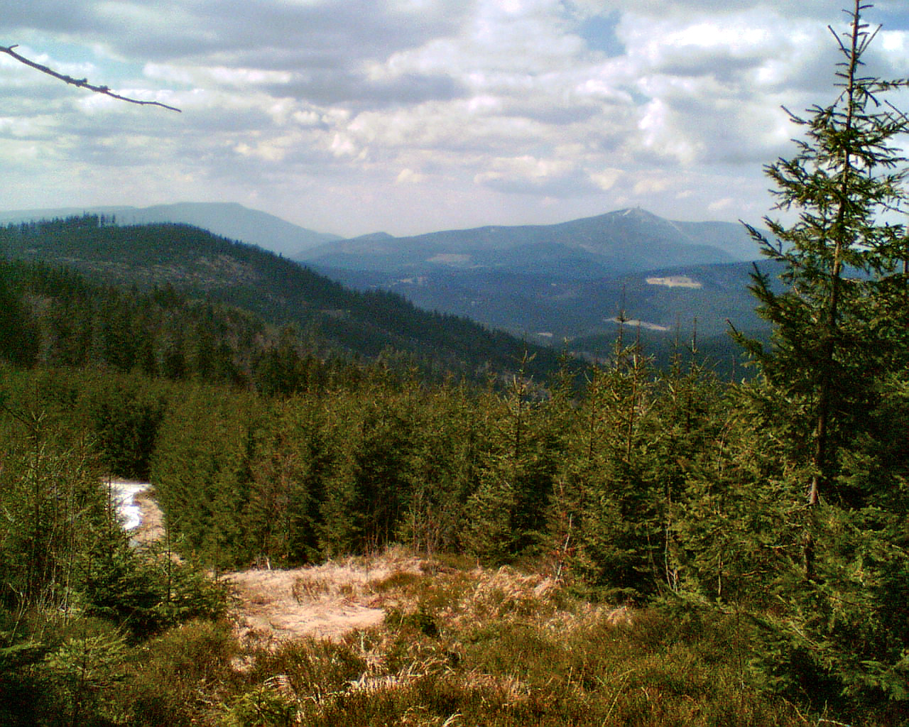 View from Malý Polom